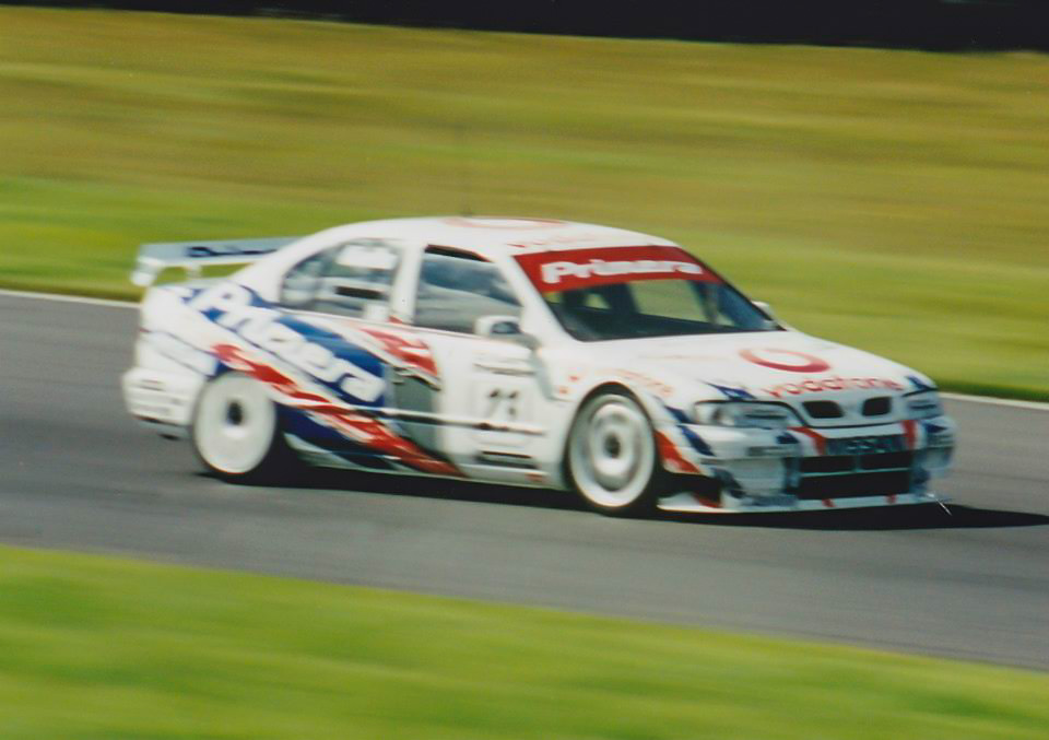 Laurent Aiello BTCC 1999 Nissan Primera at Donington Park